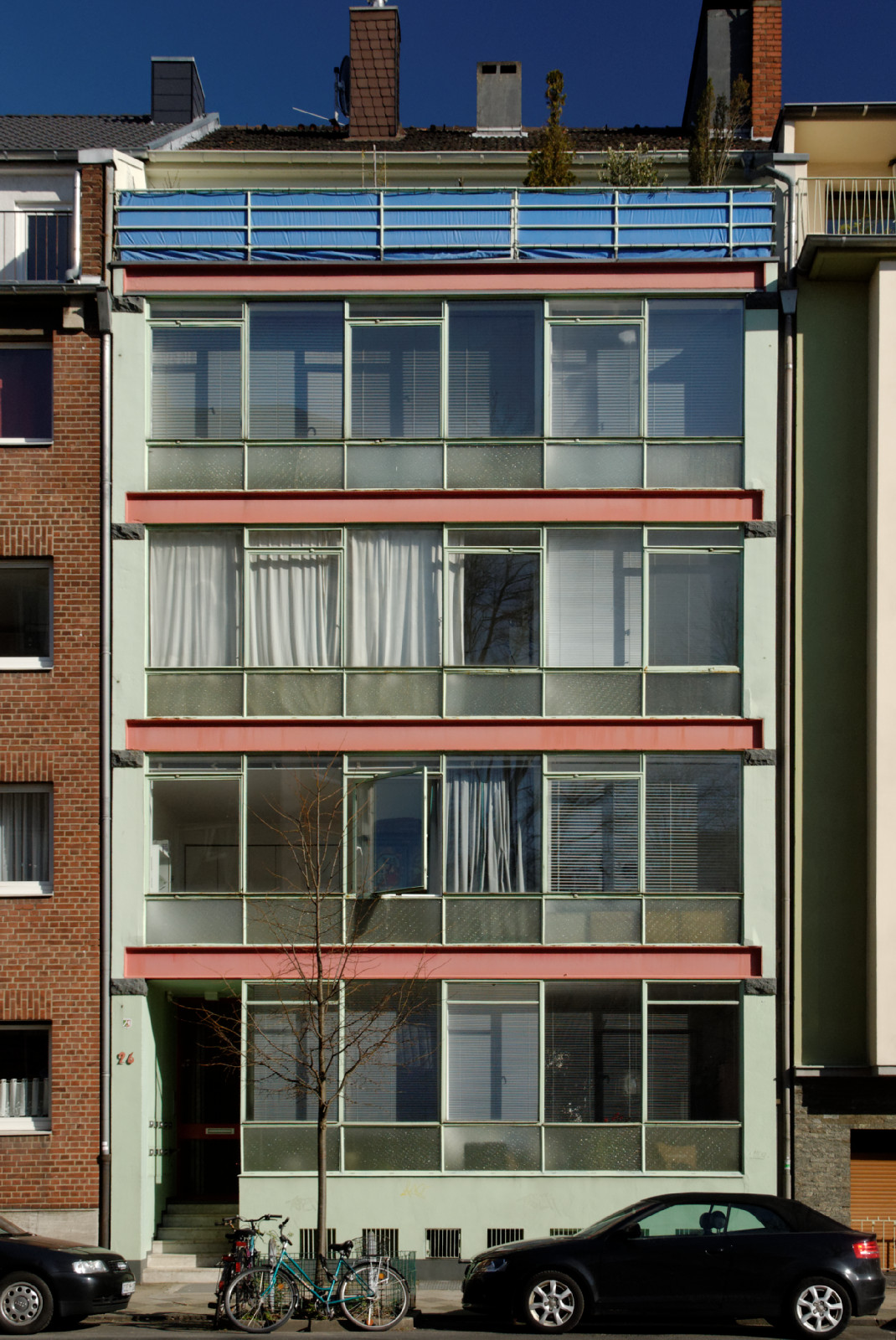 House Stephanienstraße 26 in Düsseldorf-Stadtmitte, Germany